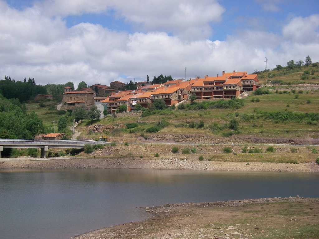 View of San Andrés (La Rioja, Spain)